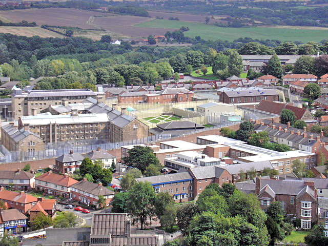 Durham Prison. Seen from the main tower of the cathedral. Both of these very different buildings are within the same kilometre square.